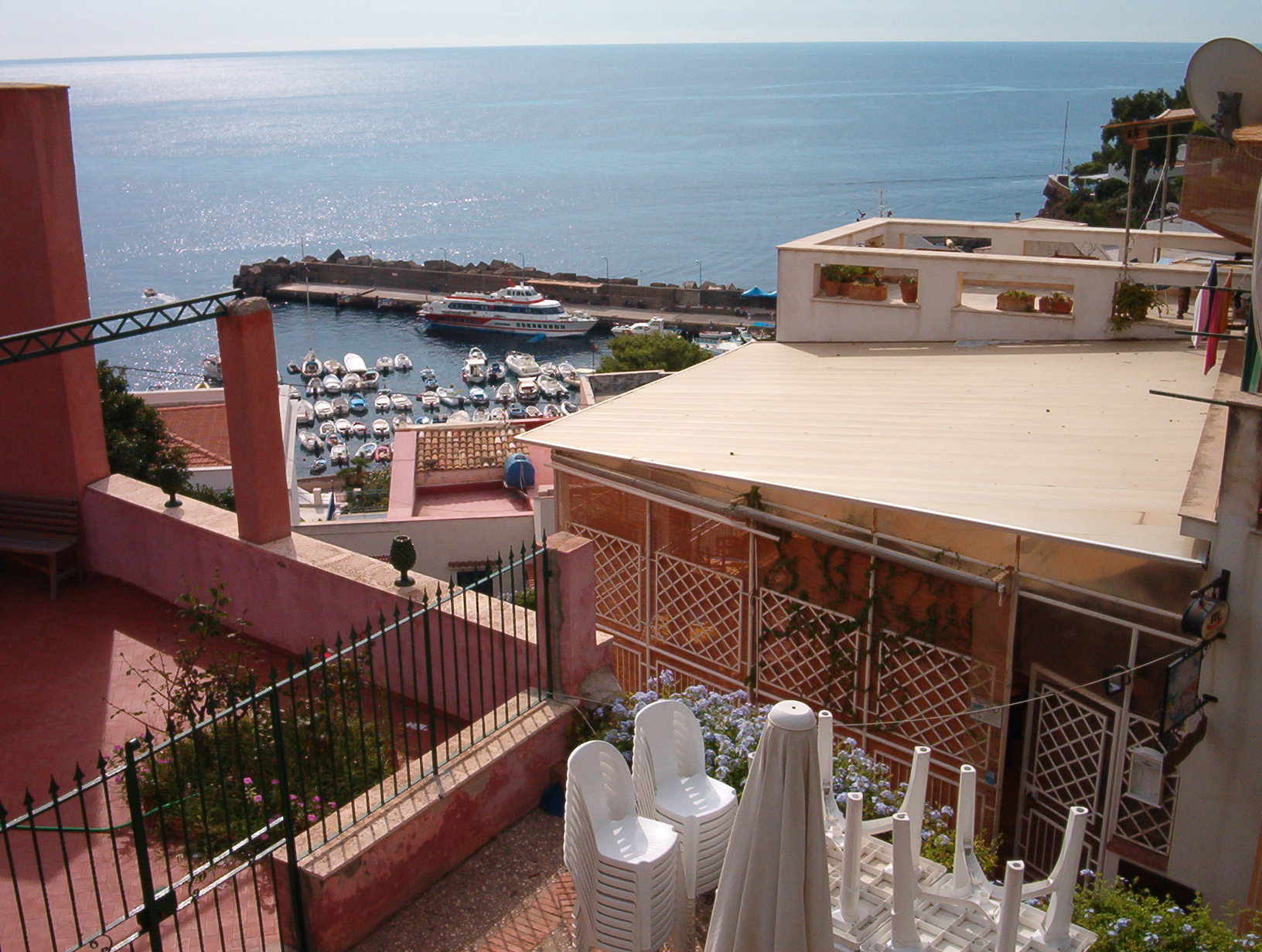 Ustica Seaport from the town